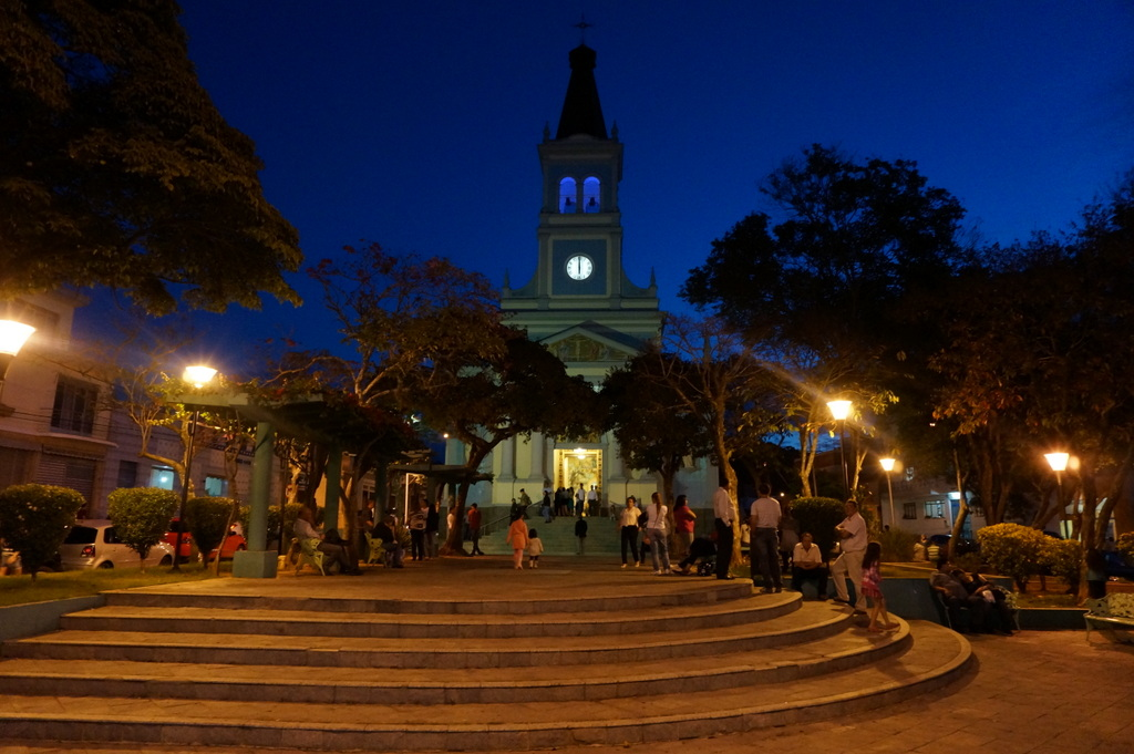 Igreja Matriz Nossa Senhora do Rosário, Serra Negra, SP, Brazil